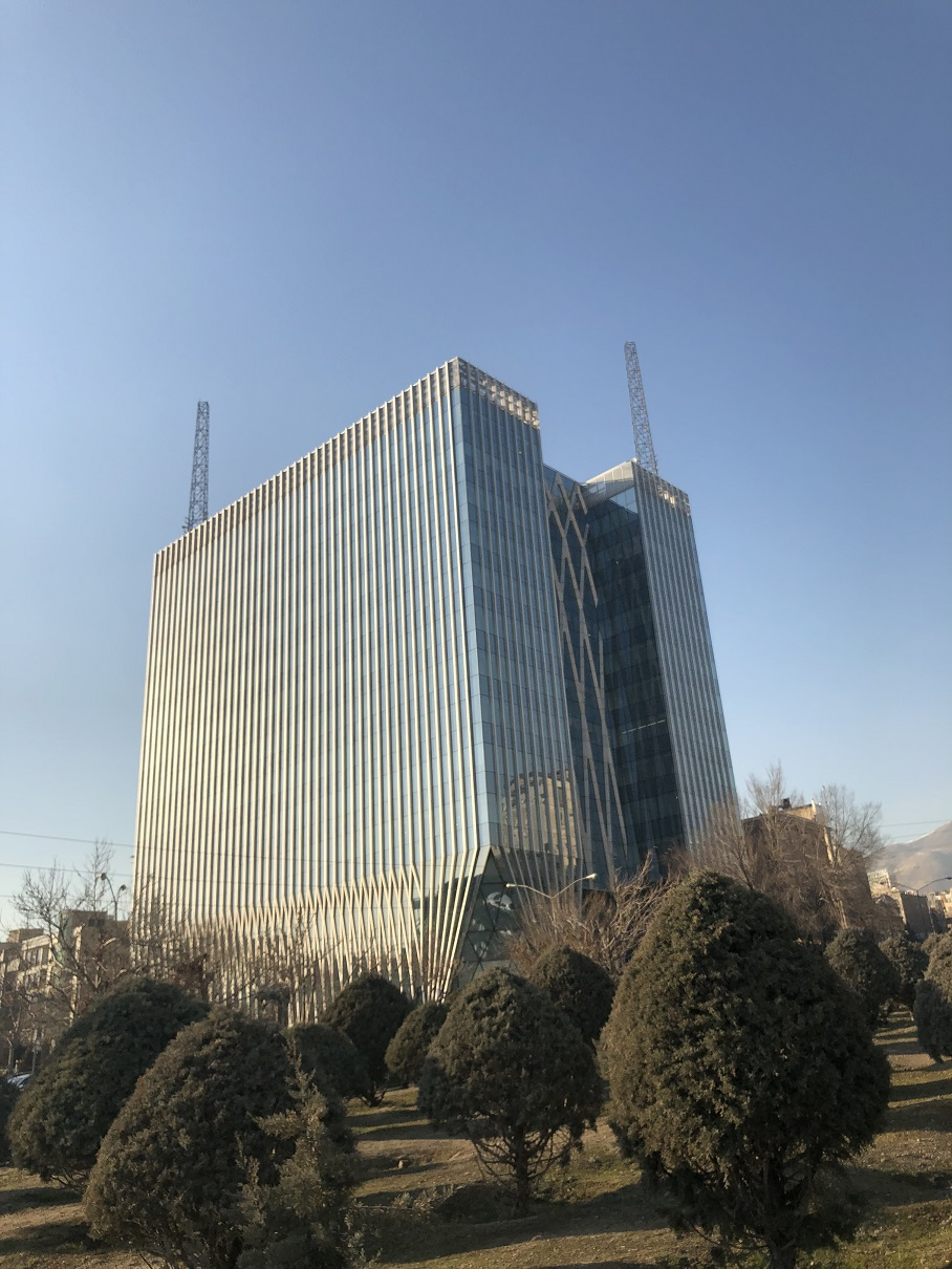 Tehran Stock Exchange new building